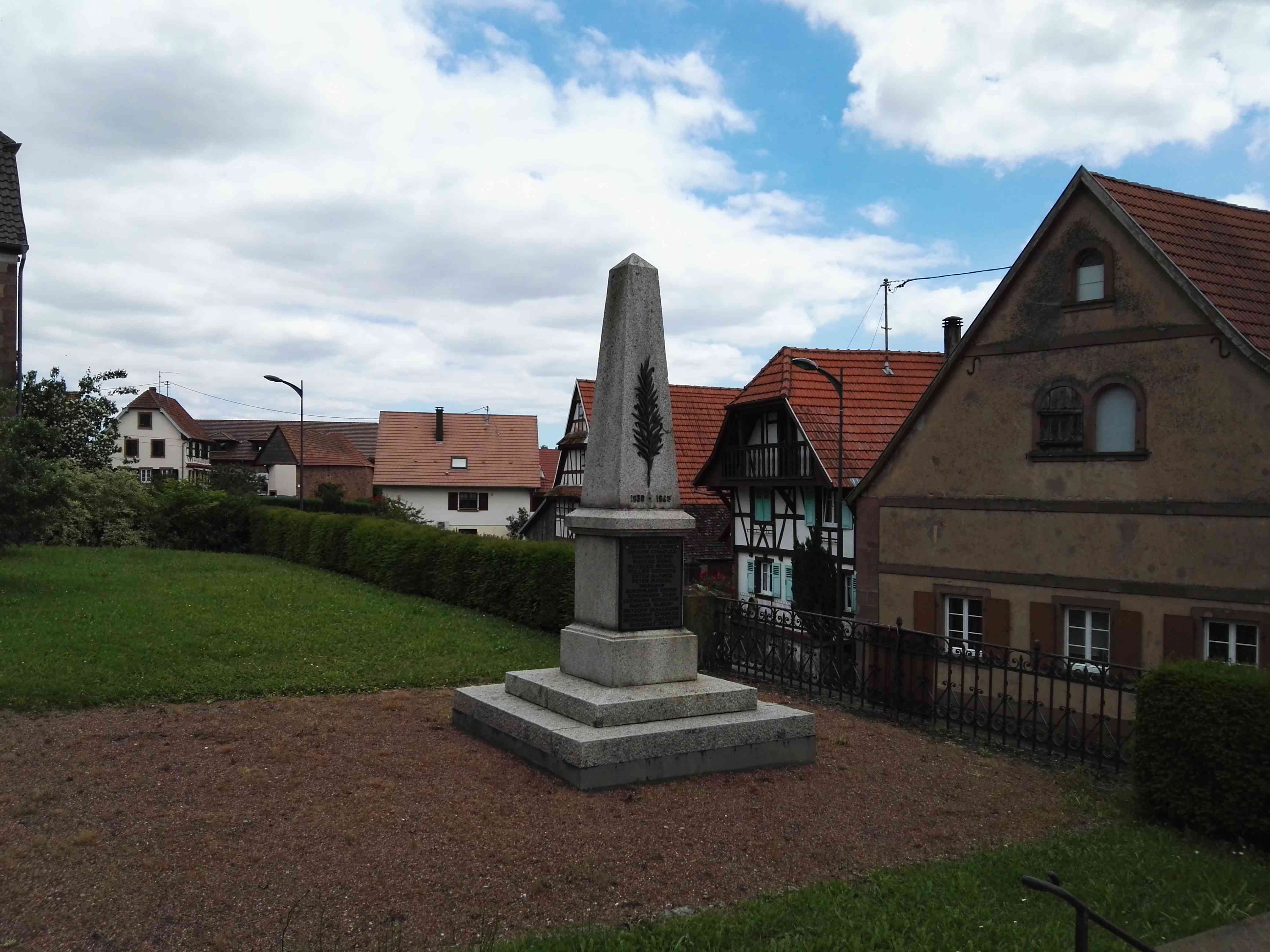 France, Alsace, Schillersdorf, war memorial